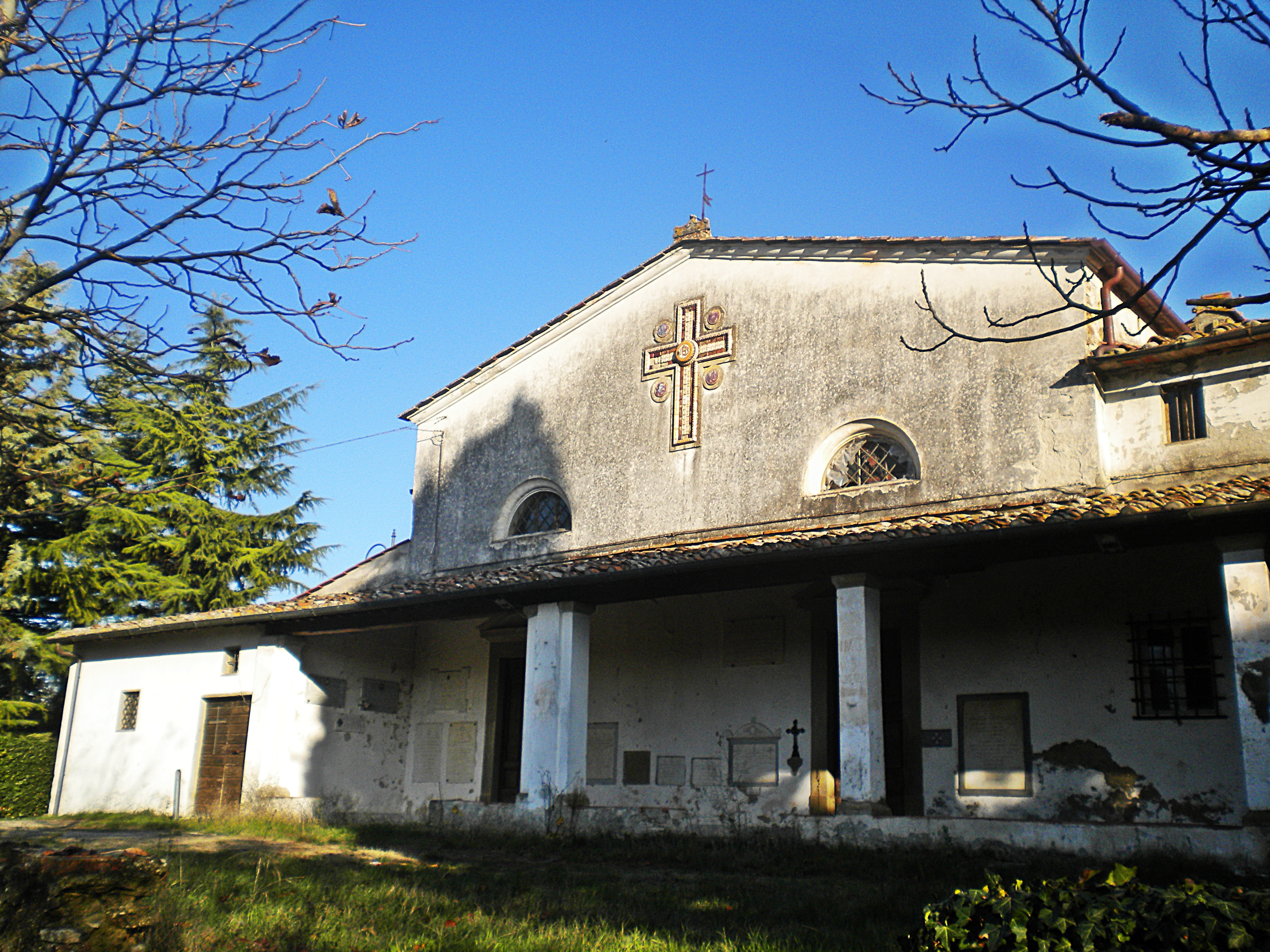 facade